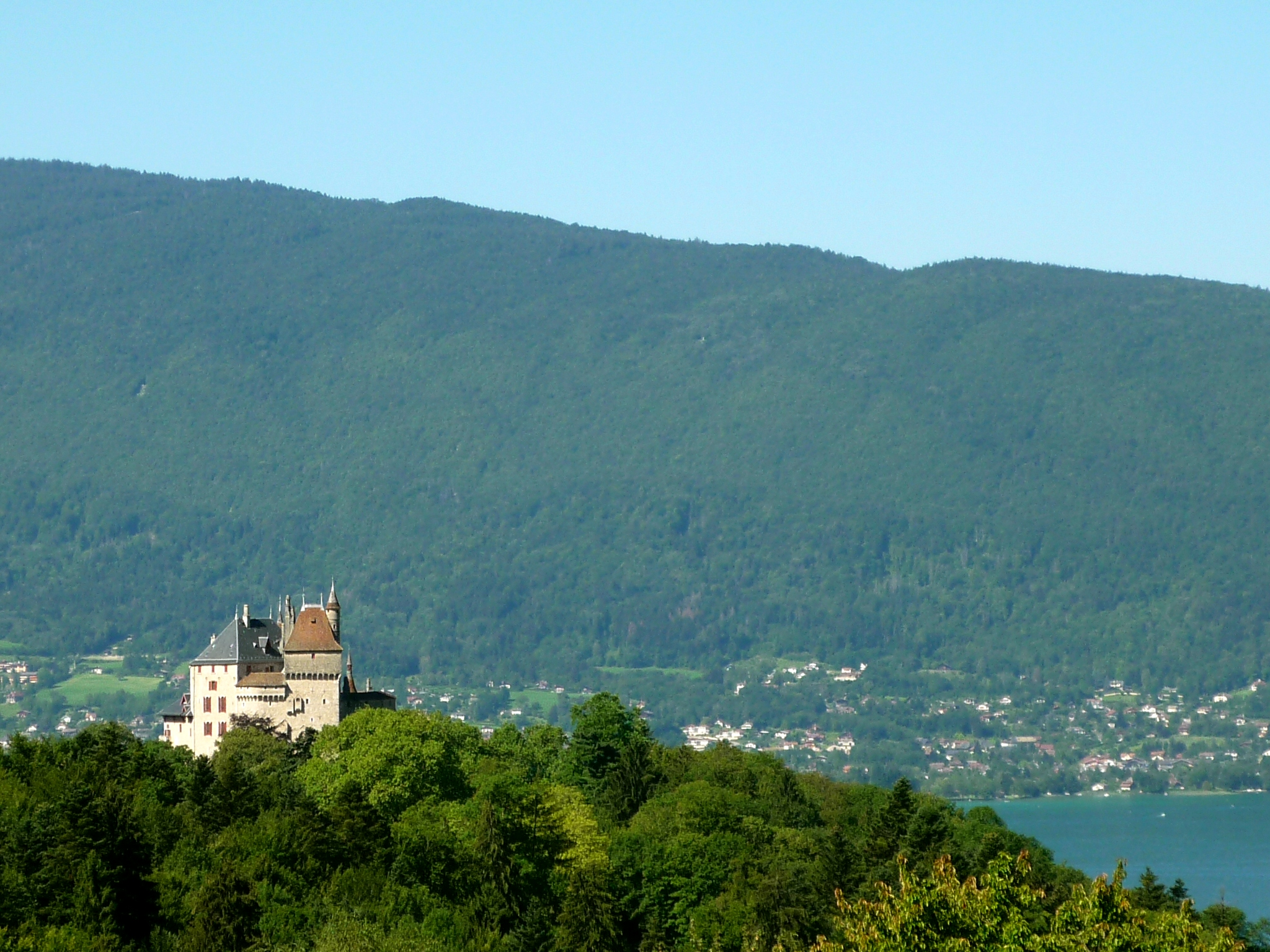 Menthon-Saint-Bernard Castle, Haute-Savoie, France